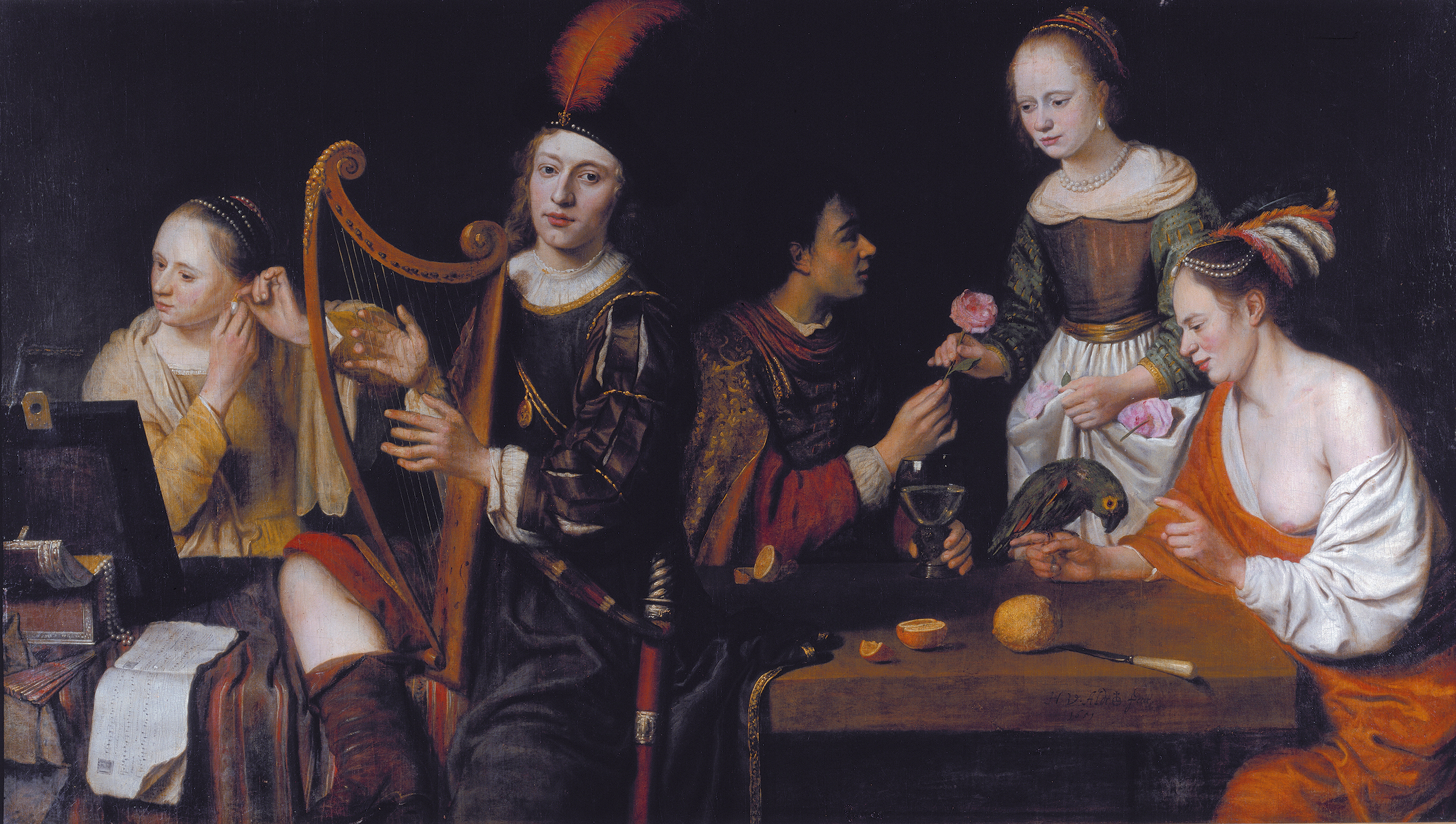 Allegory on the five senses oil on canvas 117,5 x 206 cm signed b.r.: H. V. Alde O fecit. 1651